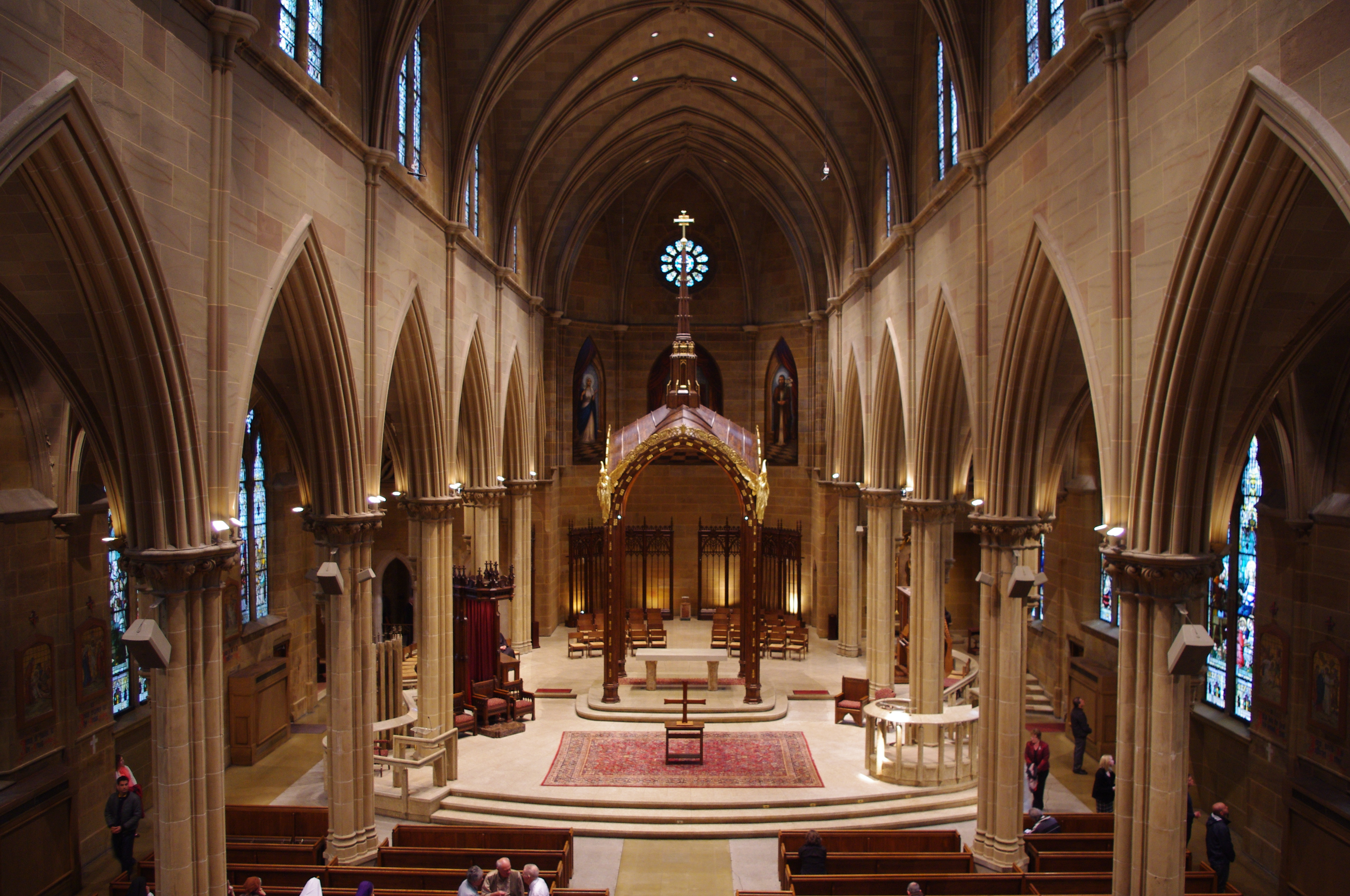 Saint Joseph Cathedral, Columbus, Ohio veneration of a relic of the True Cross after services on Good Friday, 2011